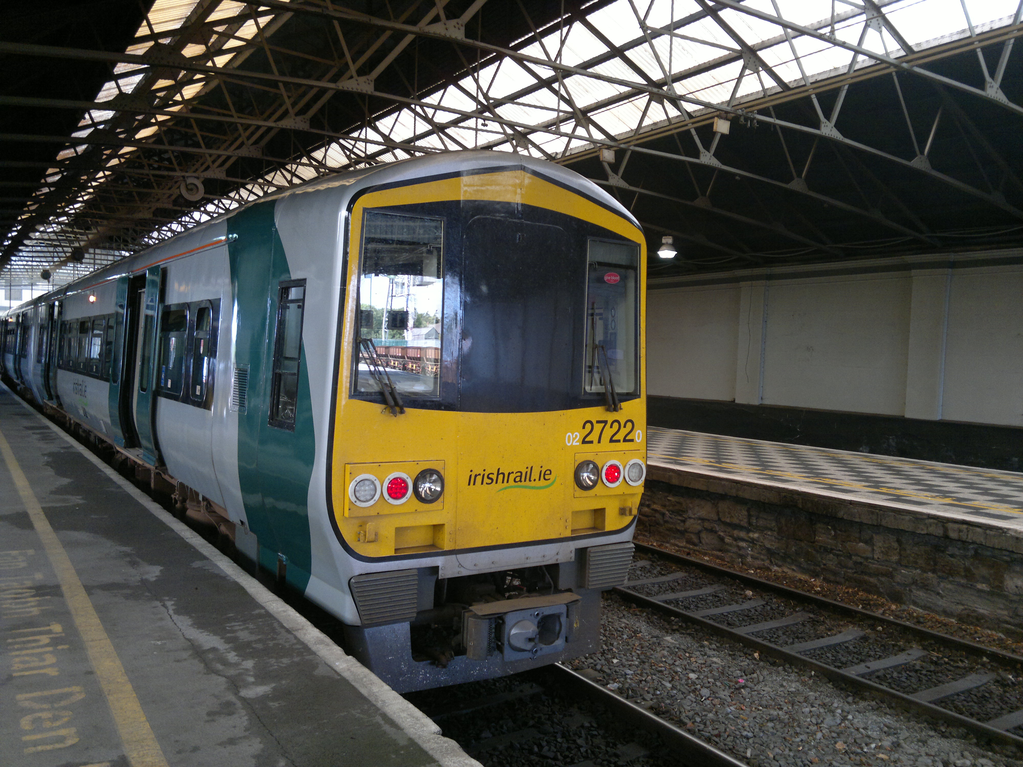 IÉ 2700 Class diesel multiple unit 2722 at Limerick